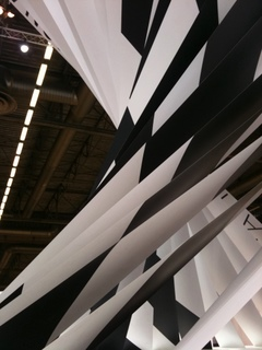 This is a scenography for the world's largest fashion fabric show Premiere Vision in Paris (Forum "Pulsation").